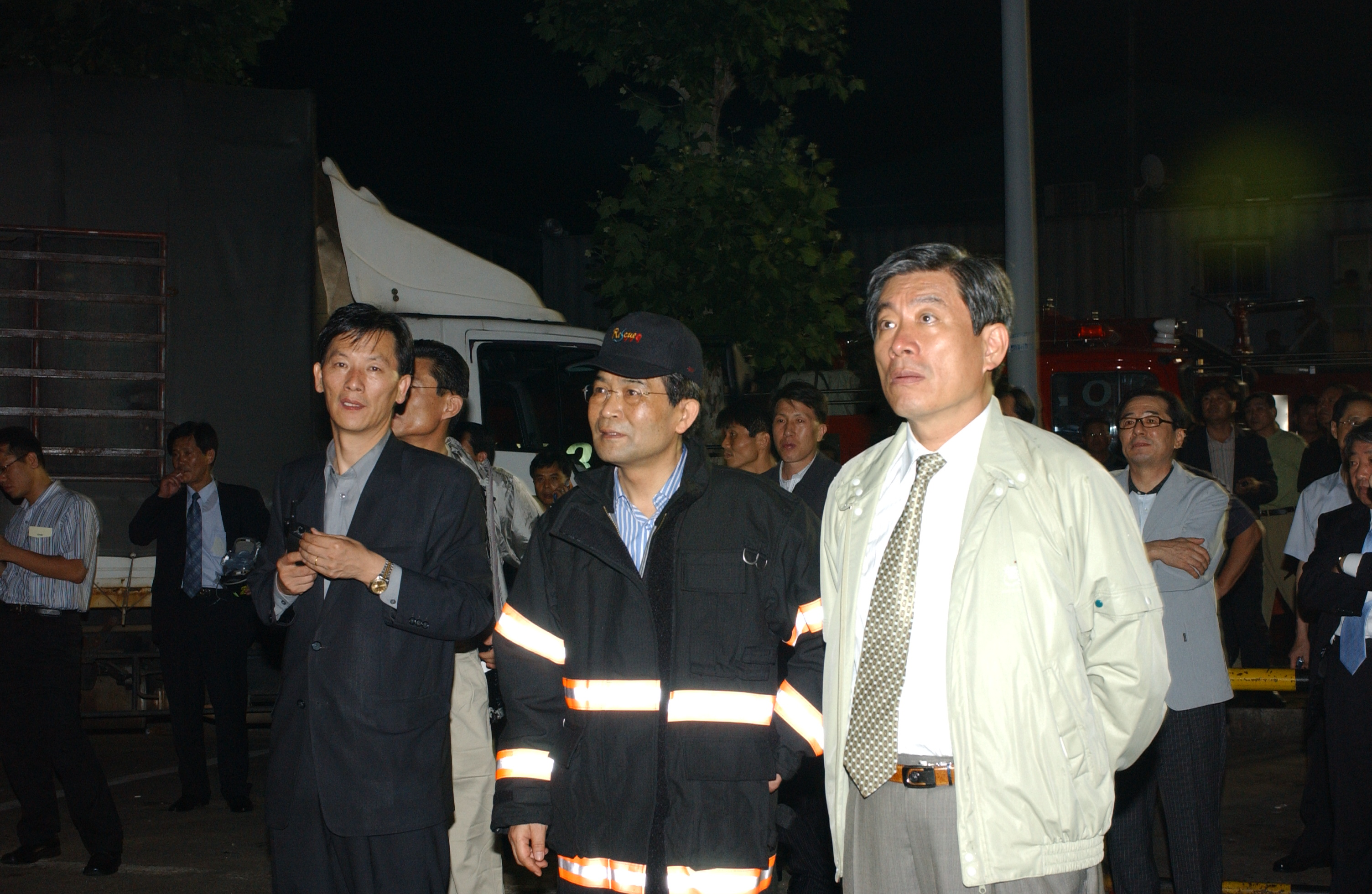 2005년 6월 서울특별시 송파구 가락동 농수산물 도매시장 화재에서 임용배, 원세훈, 서상태